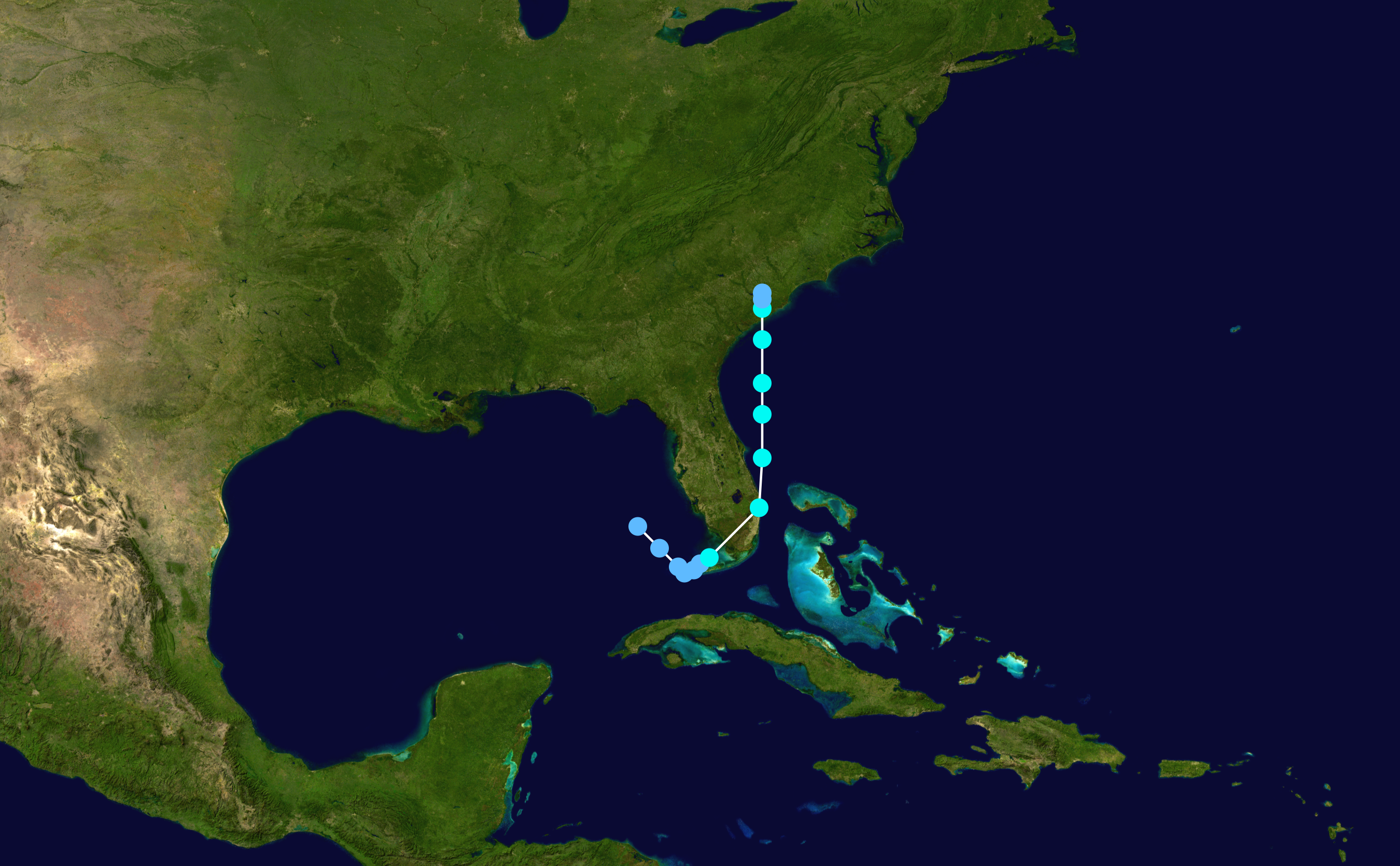 Tropical Storm Dottie (1976) track. Uses the color scheme from the Saffir-Simpson Hurricane Scale.